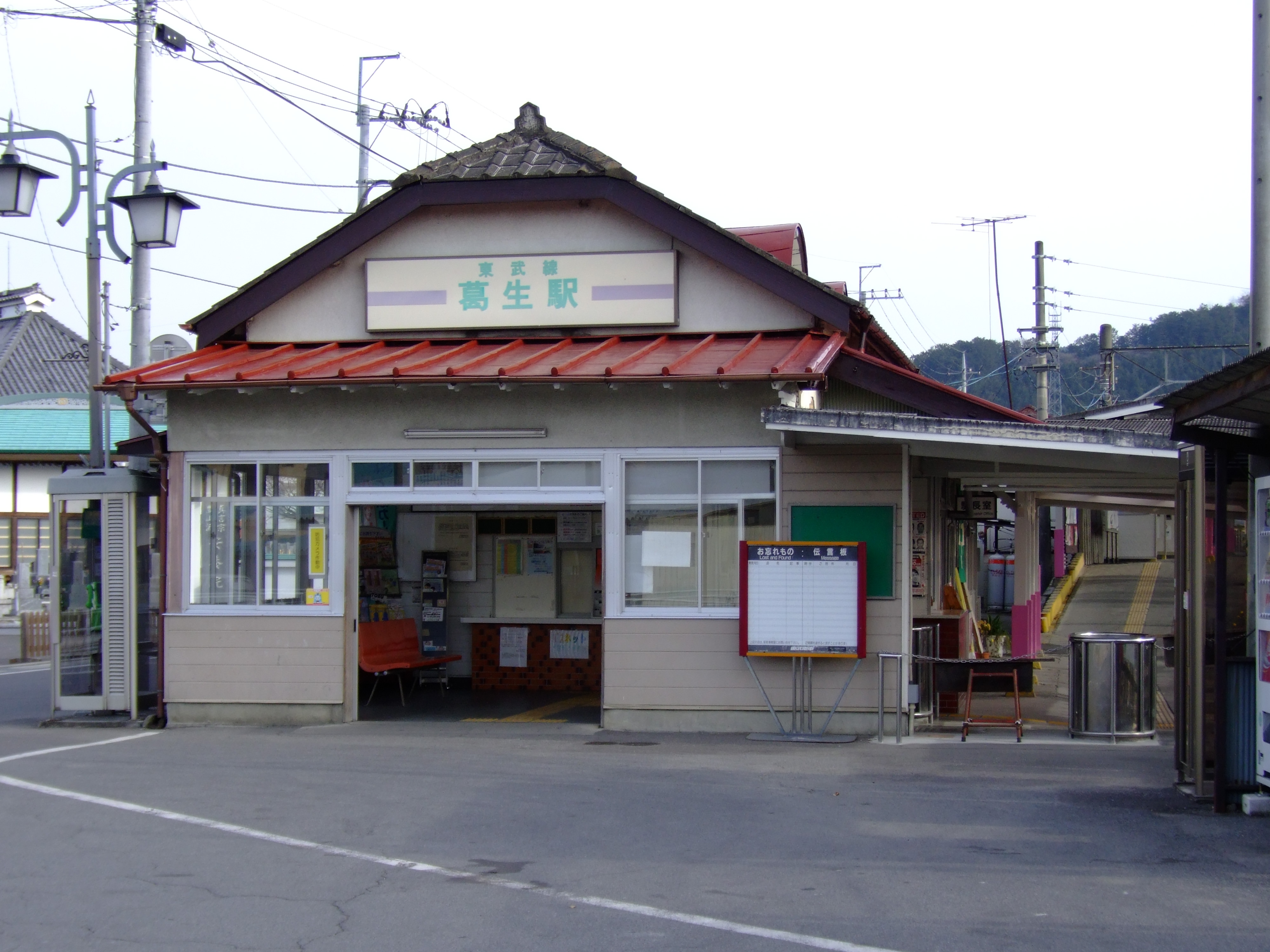 Kuzū Station (Tobu Sano Line)